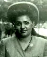 Irina Skhirtladze